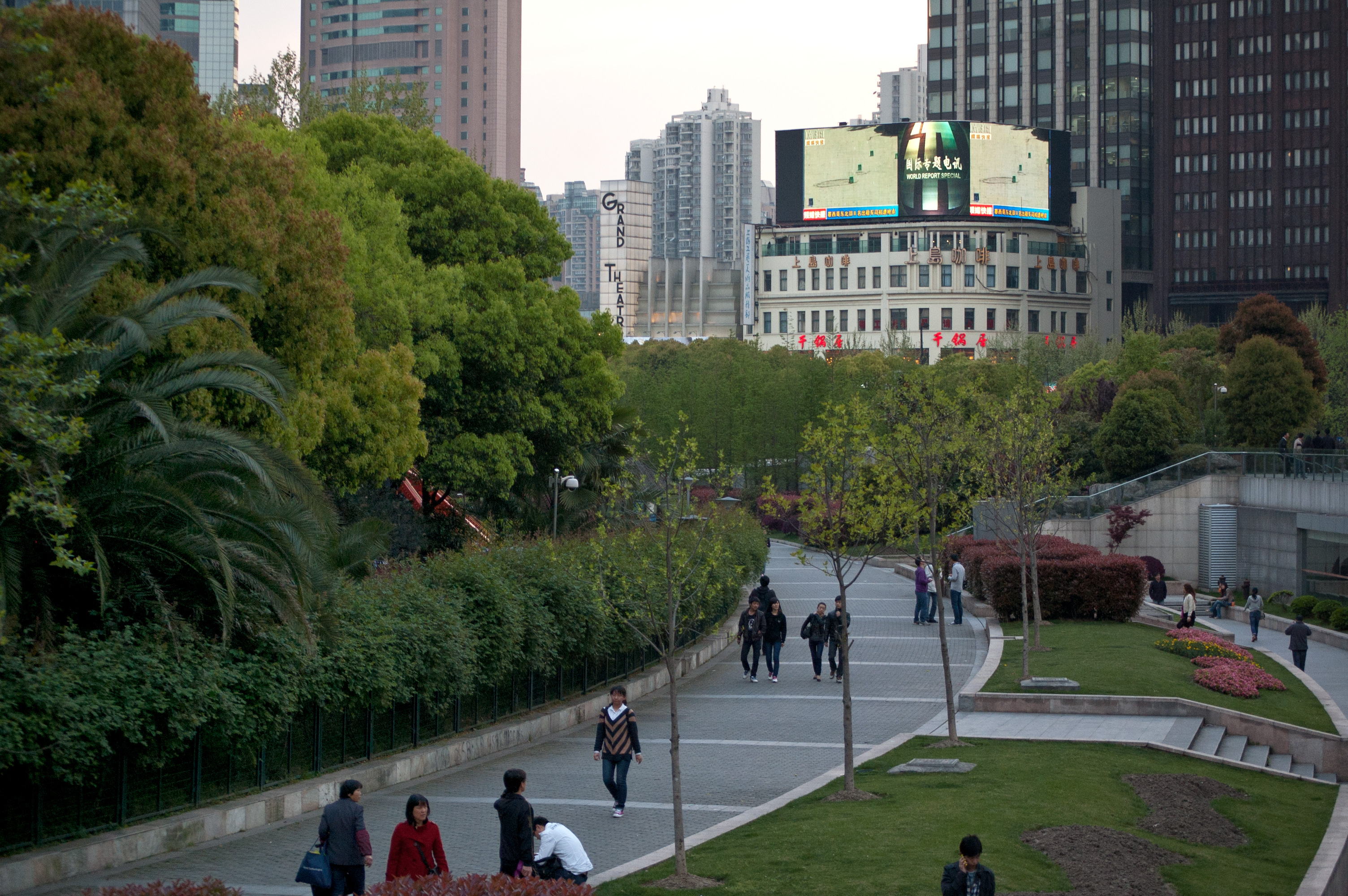 Peoples Square Park (Shanghai)